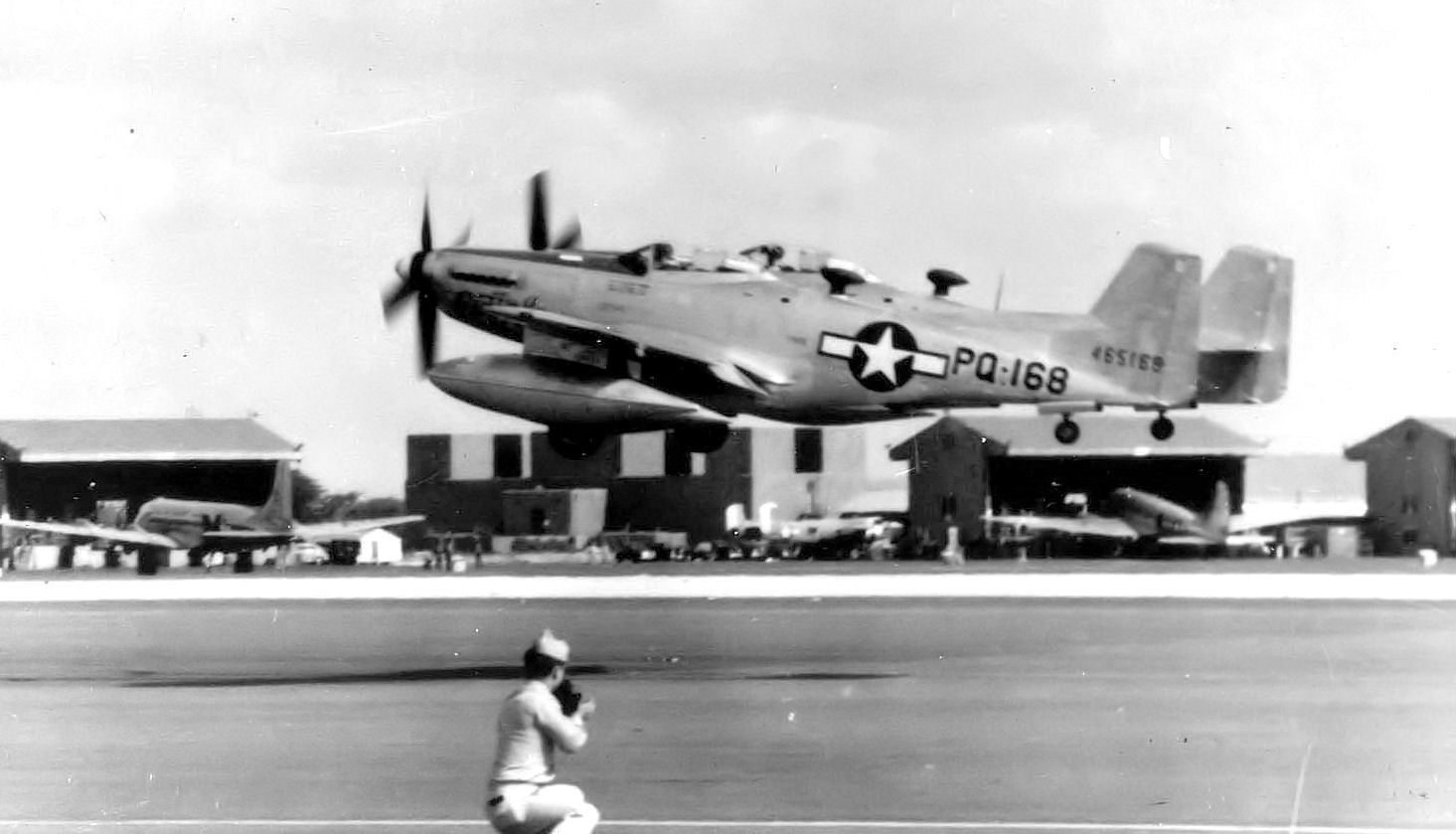 F-82B Twin Mustang "Betty Jo", AF Ser. No. 44-65168 taking off from Hickam Field, Hawaii to New York flight in 1947